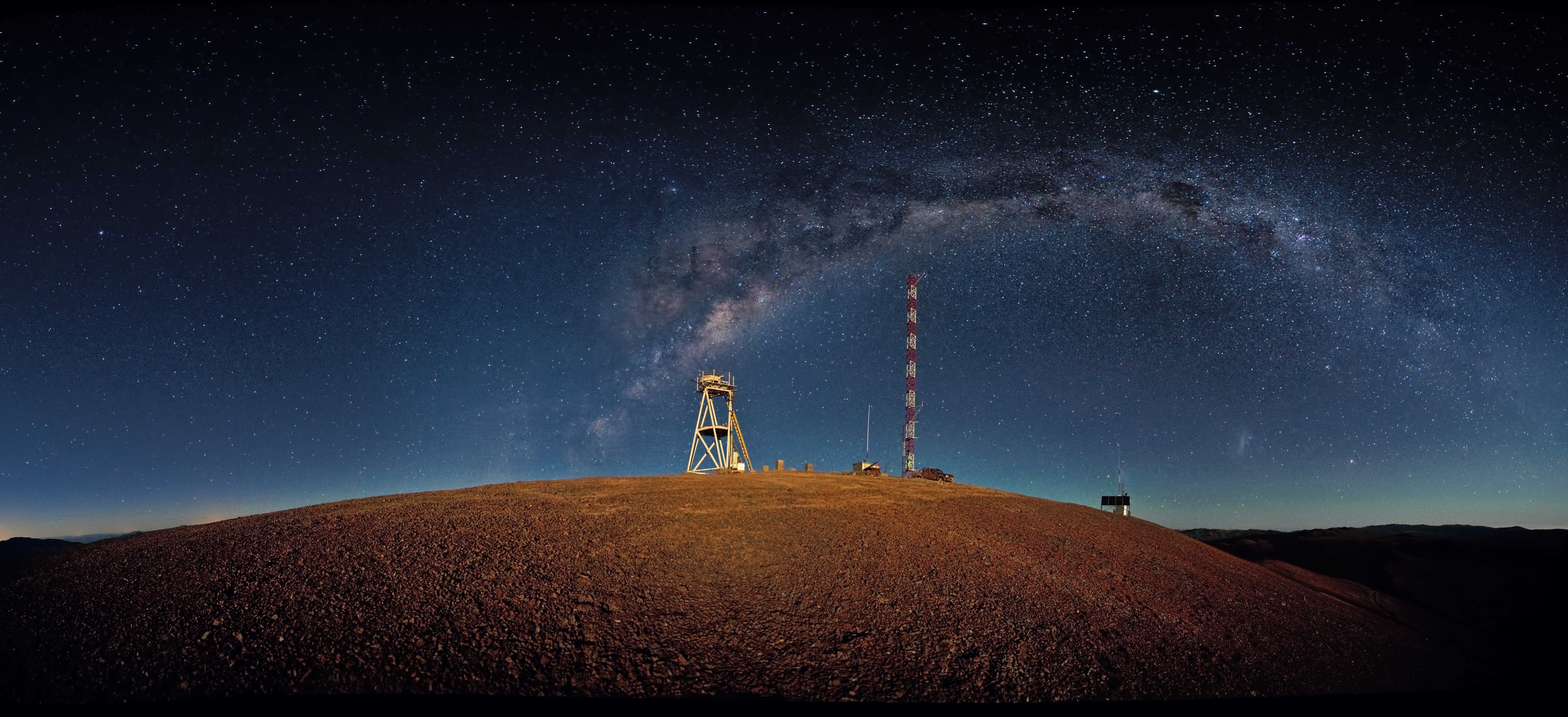 This night-time panorama shows Cerro Armazones in the Chilean desert, near ESO's Paranal Observatory, site of the Very Large Telescope (VLT). Cerro Armazones was chosen as the site for the planned European Extremely Large Telescope (E-ELT), which, with its 40-metre-class diameter mirror, will be the world’s biggest eye on the sky.